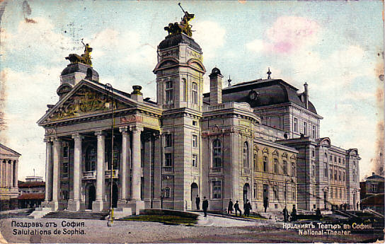 Ivan Vazov National Theatre, Sofia, Bulgaria, as it looked in 1910.